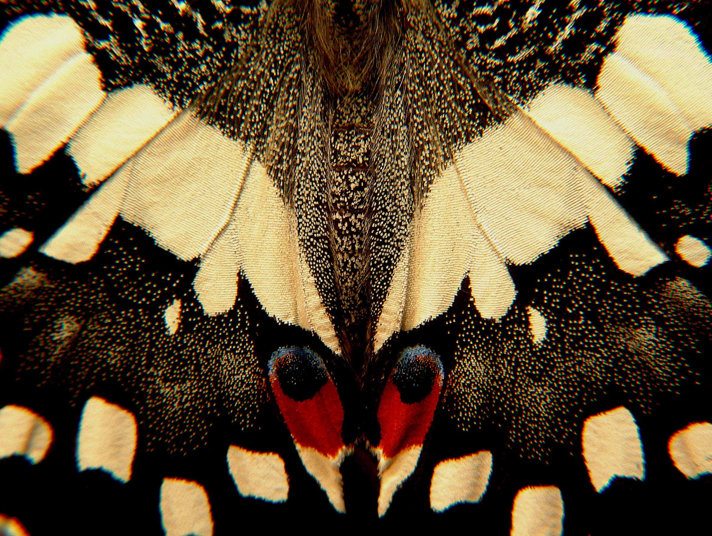 Close up of wings of a lime butterfly